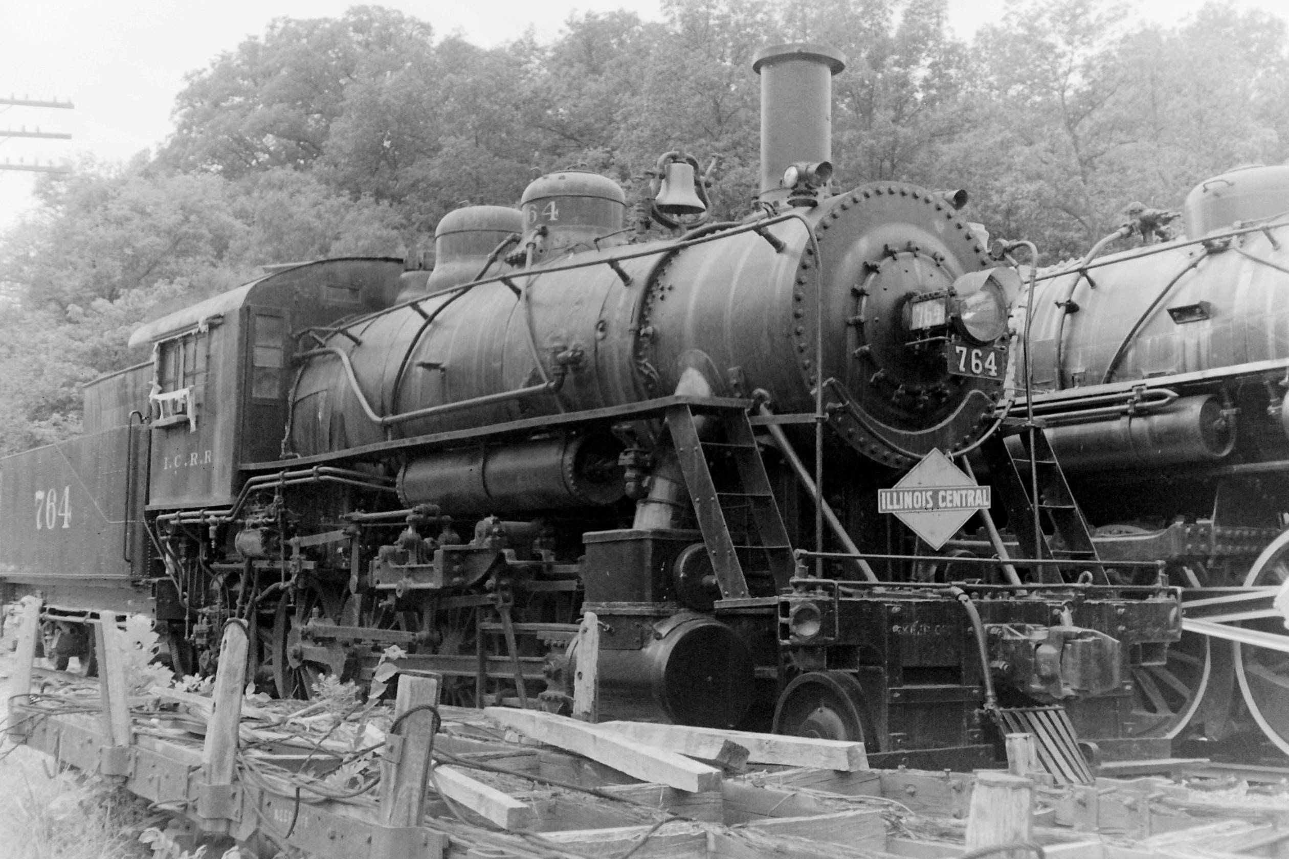 Illinois Central RR "700" Class 2-8-0 No.764 built by ALCO (Rogers) in 1904 at the National Museum of Transport, St Louis, 8/70. 207 were built by various ALCO works 1902-11 and subject to extensive modernisation throughout their lives. No.764 still has slide valves but many were rebuilt with piston valves.